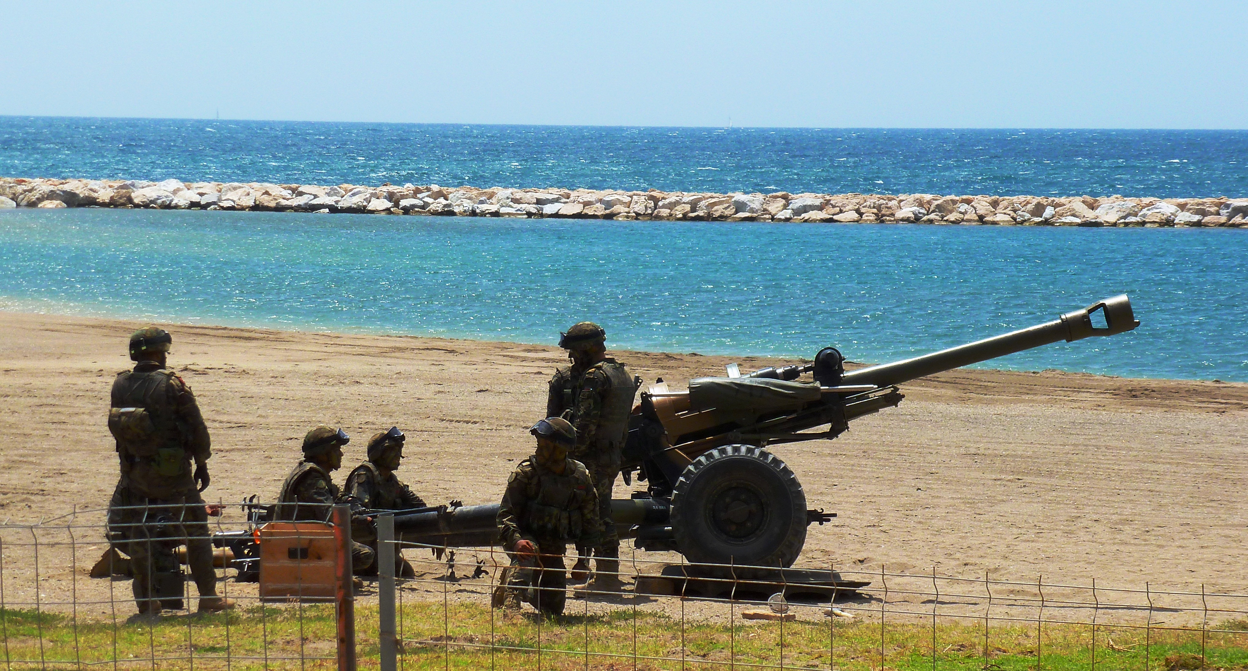 Light Gun of the Spanish Army (Legion) at Armed Forces Day 2011 held in Malaga.